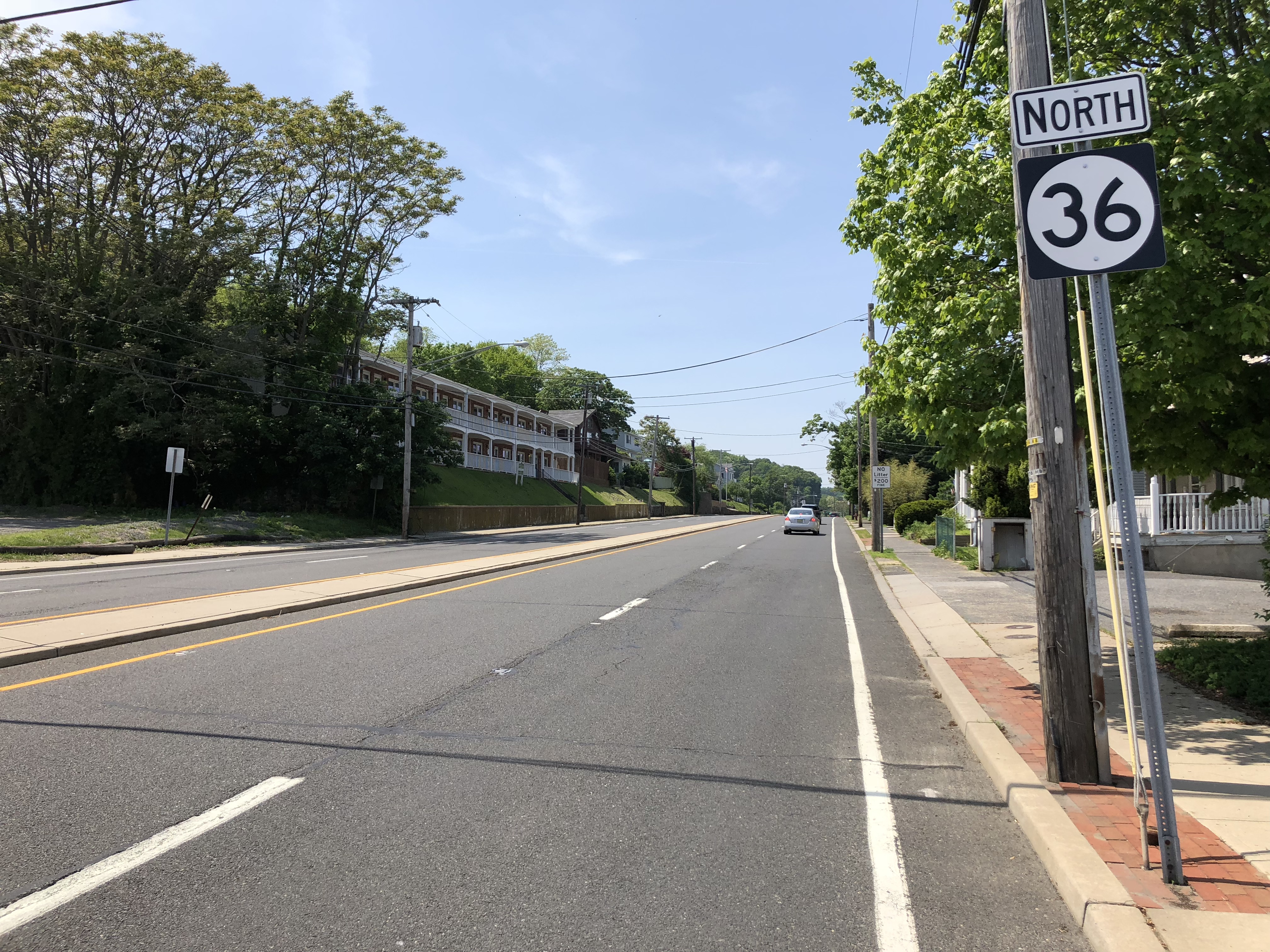 View north along New Jersey State Route 36 (Navesink Avenue) just north of Monmouth County Route 8 (Bay Avenue) in Highlands, Monmouth County, New Jersey